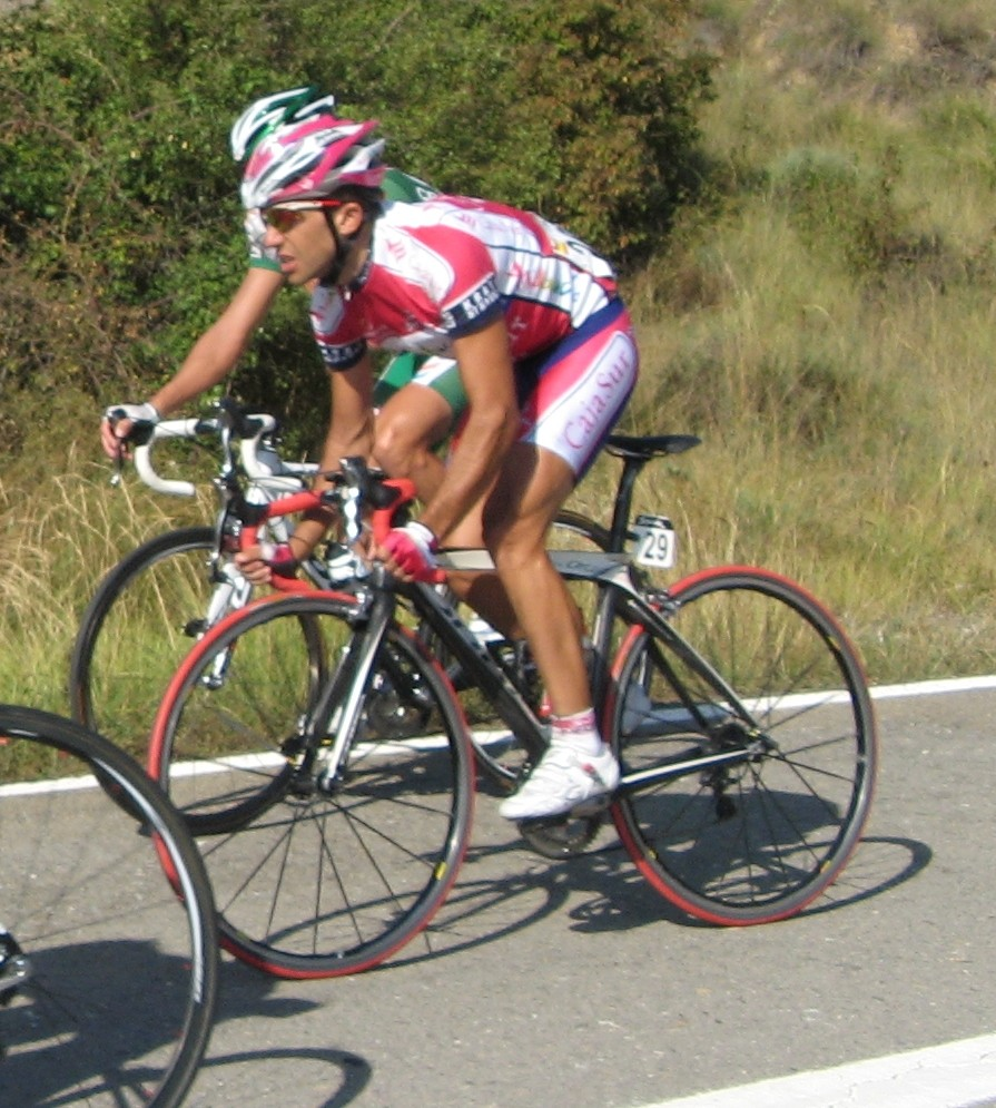 José Ruiz, 2008 Vuelta a España, 9th stage, Alto Gallego, Spain.